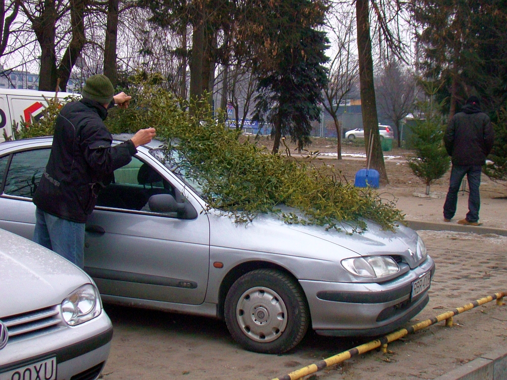 Christmas Mistletoe, Poland